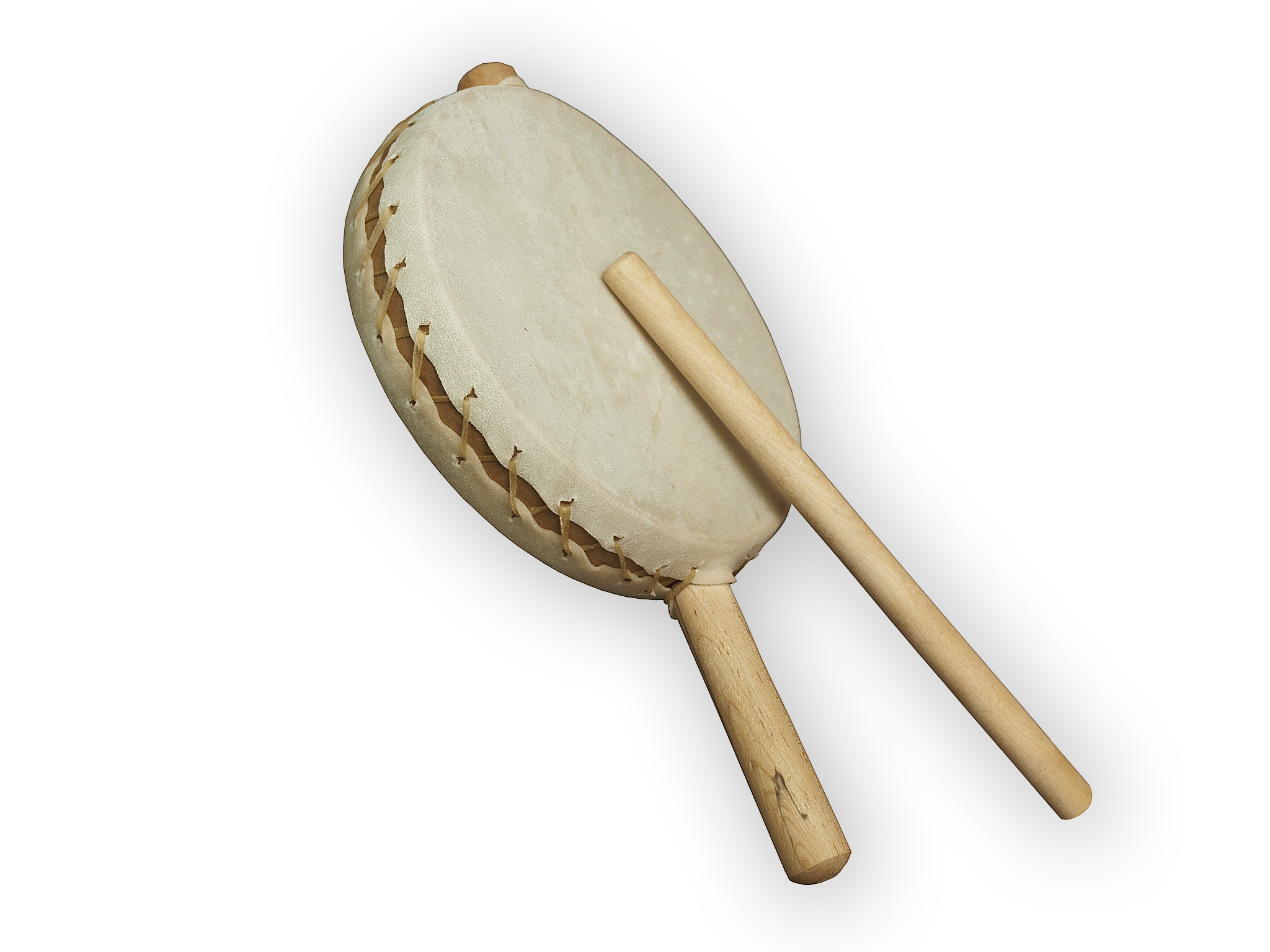 Sogo (소고), small Korean hand-held drum